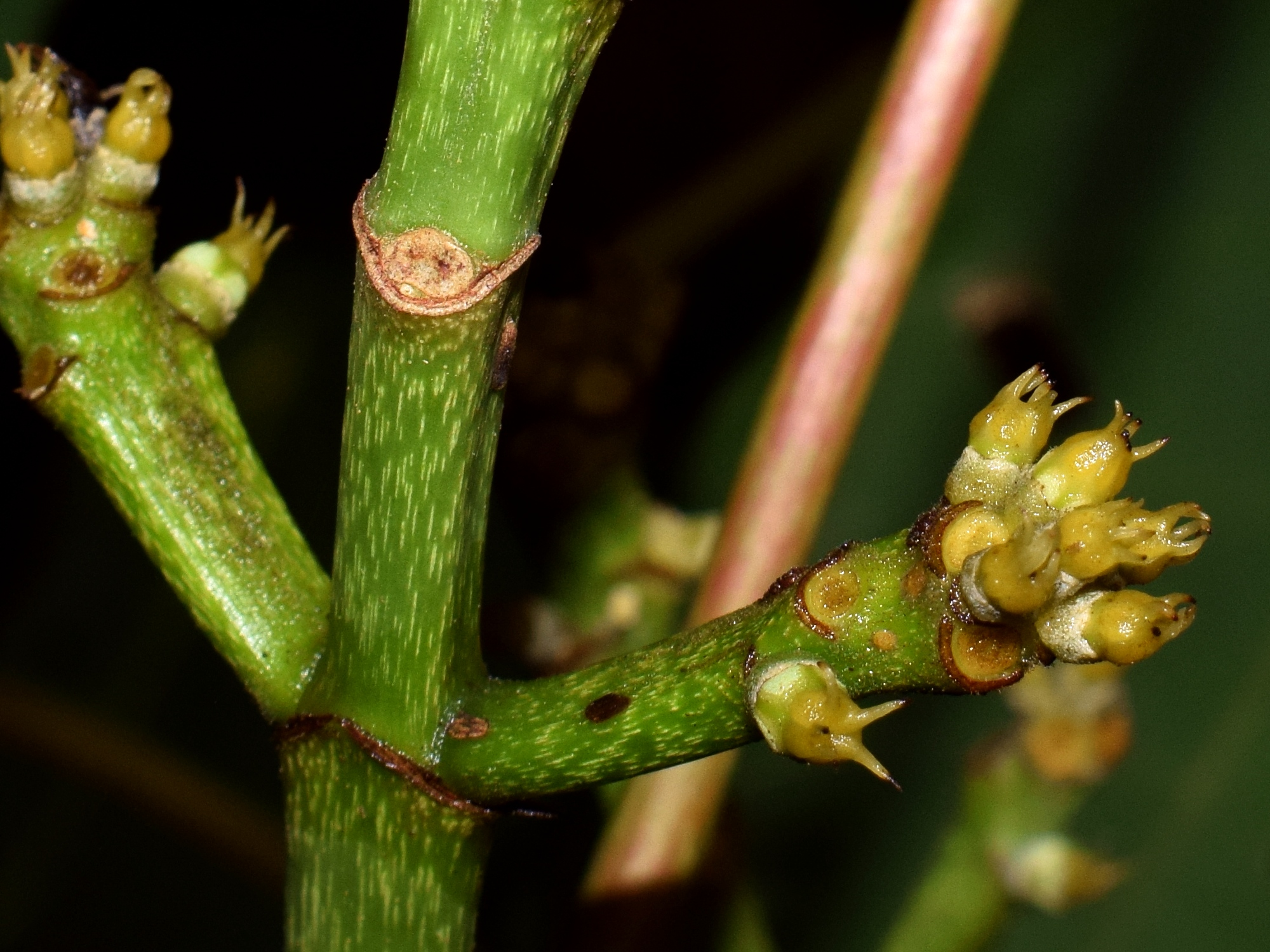 Macaranga triloba; pistillate inflorescence. From Bogor, West Java, Indonesia.